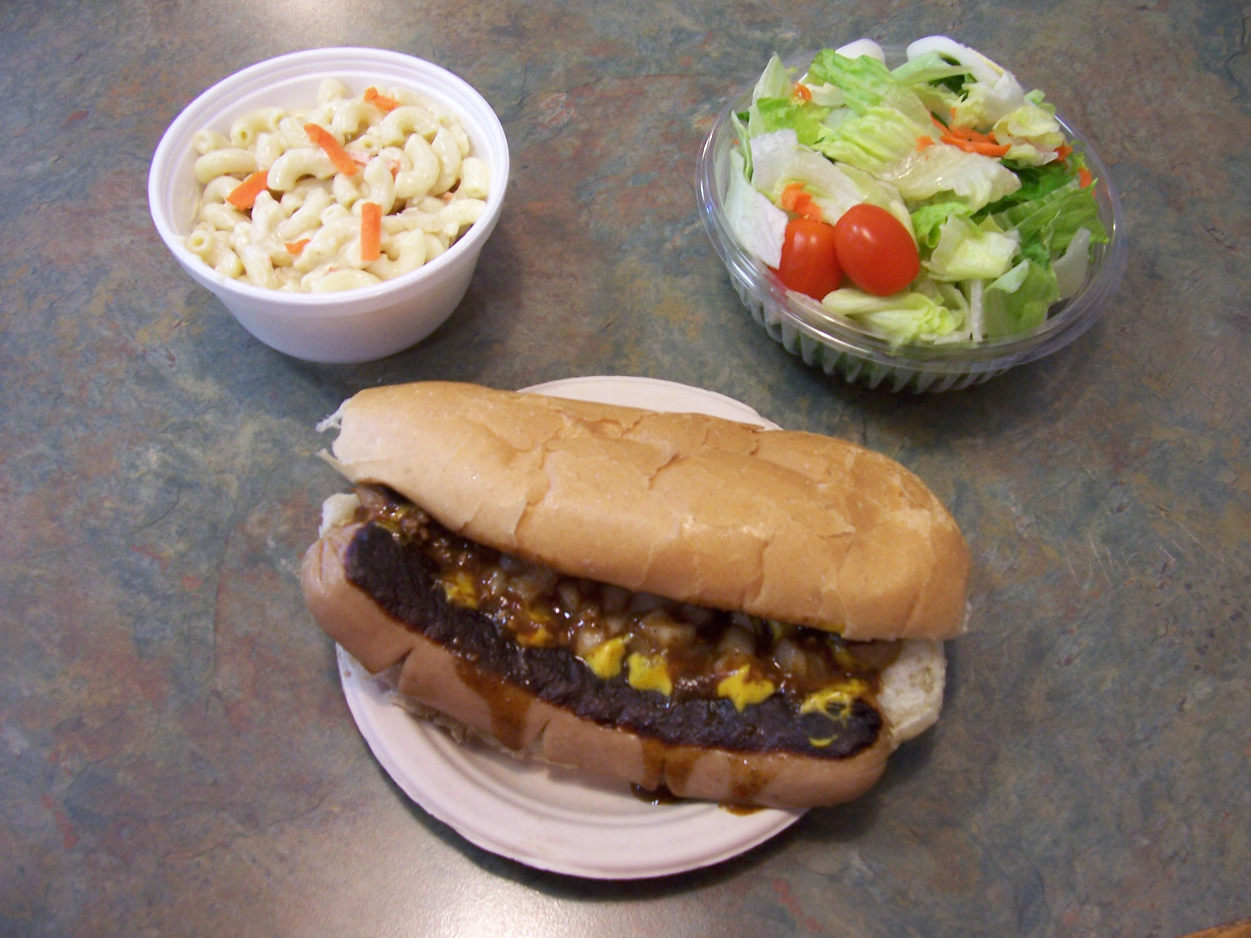 Bill Gray's white hot dog, macaroni salad, and side salad